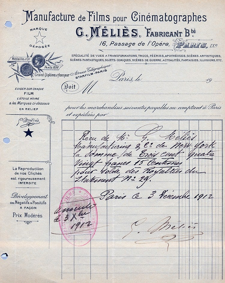 G. Melies Film Co (1912)